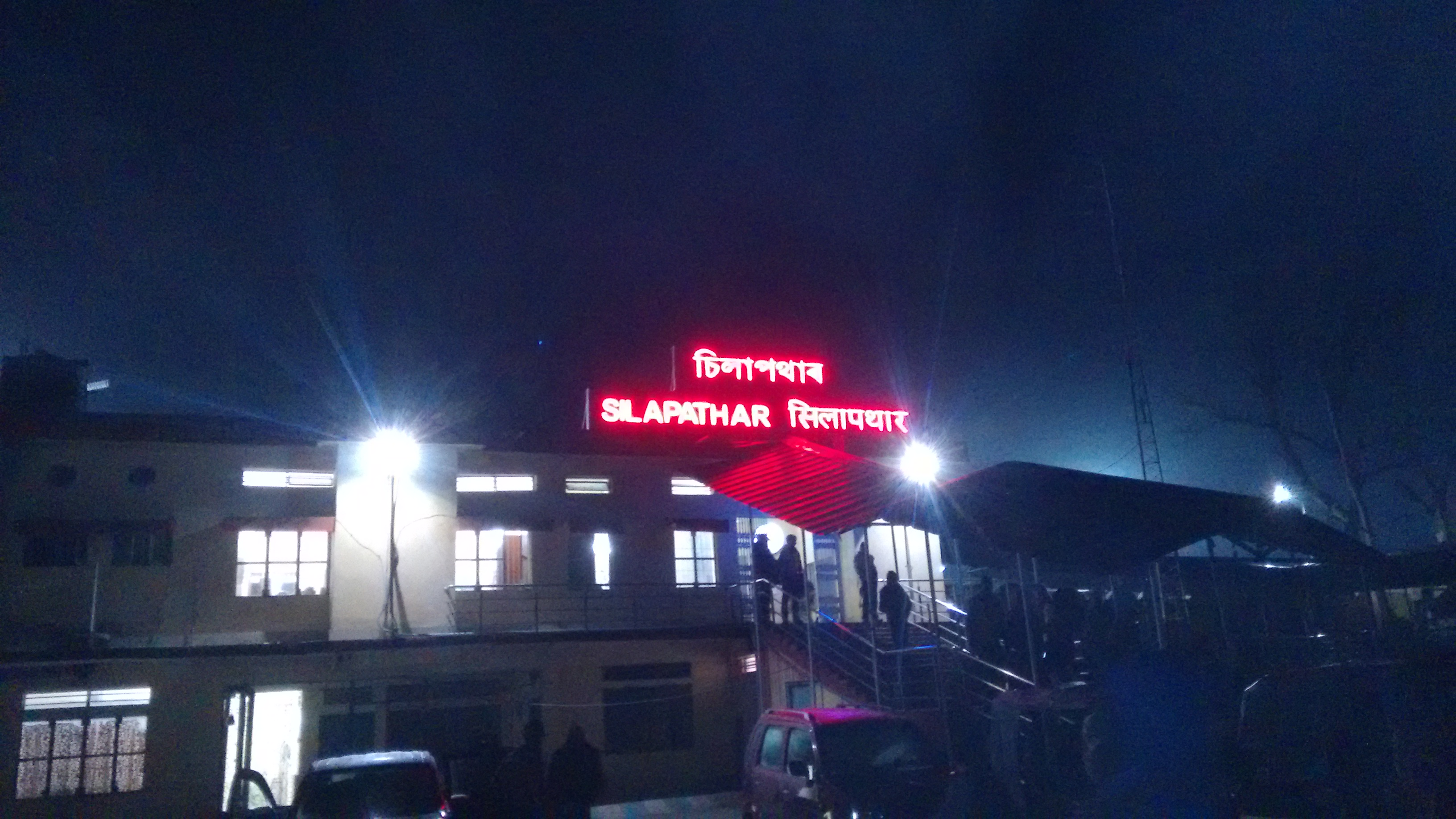 Silapathar Railway station, early in morning, during a cold December month